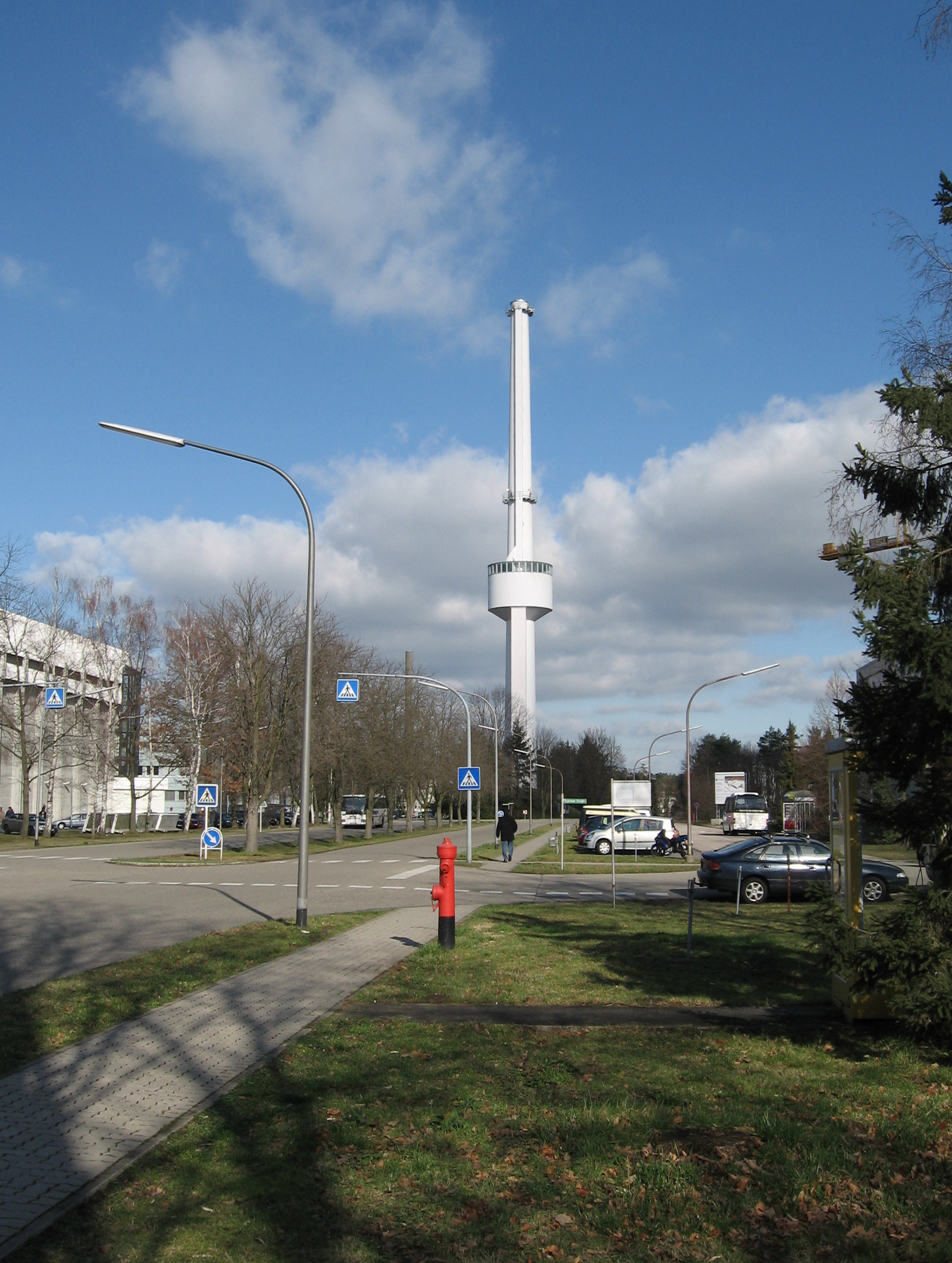 The picture shows the Forschungszentrum Karlsruhe, a German science center, member of the Helmholtz-Gemeinschaft. This picture: The main street of Forschungszentrum Karlsruhe. You can also see the water tower